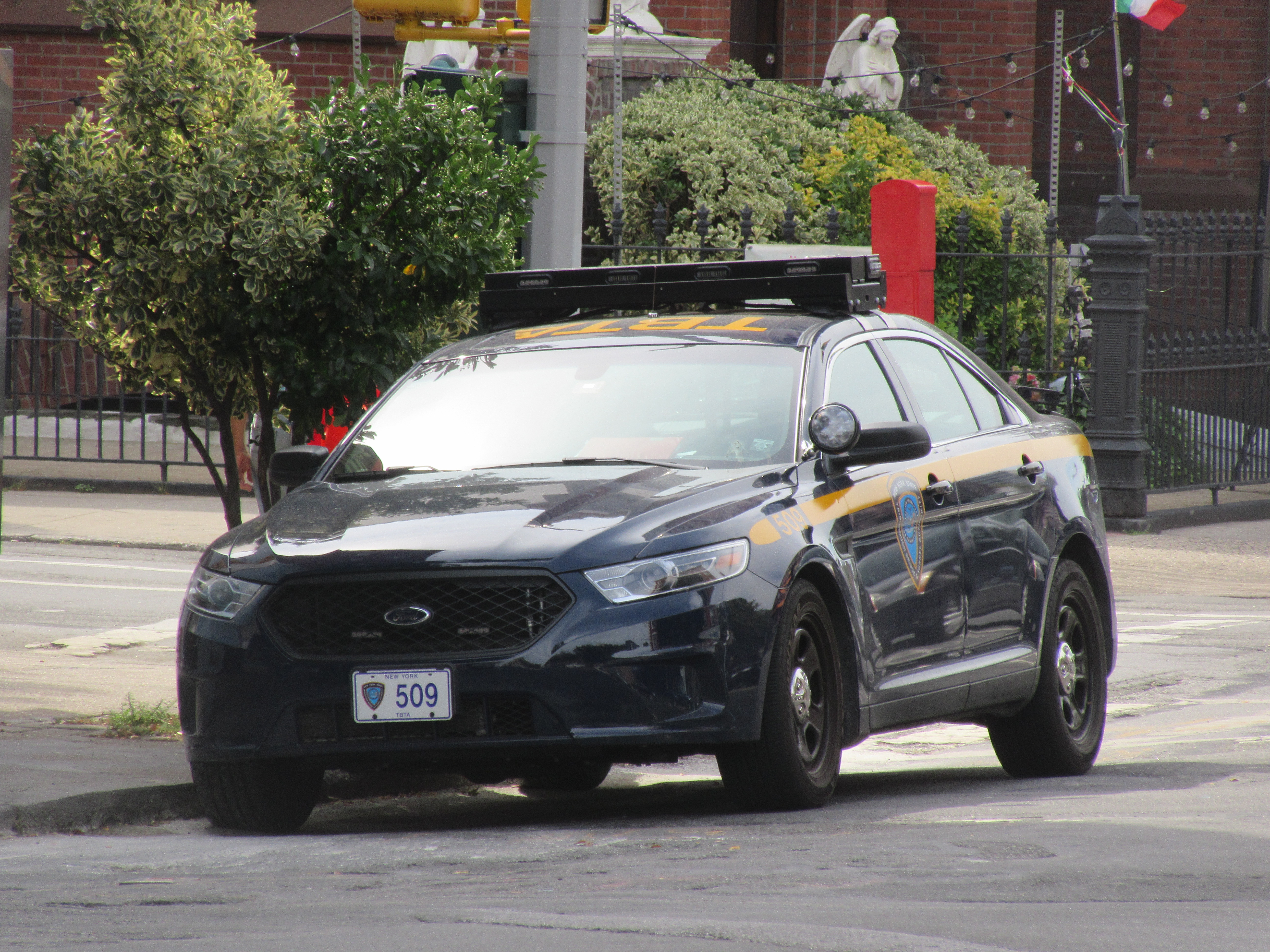 NY State TBTA Ford Police Interceptor